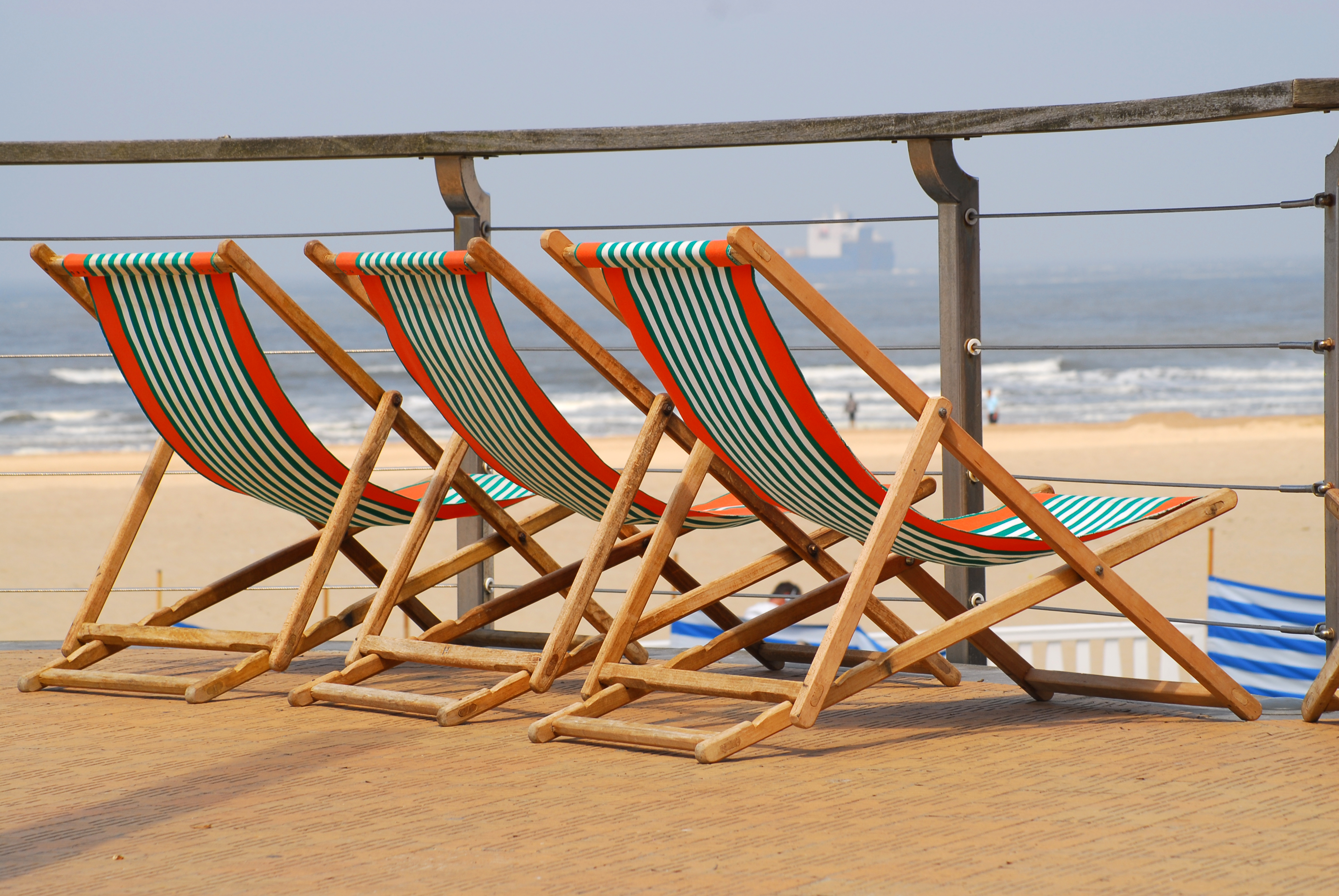 Relaxing at the beach, beehive chair, beachchair at Oostende, Belgium